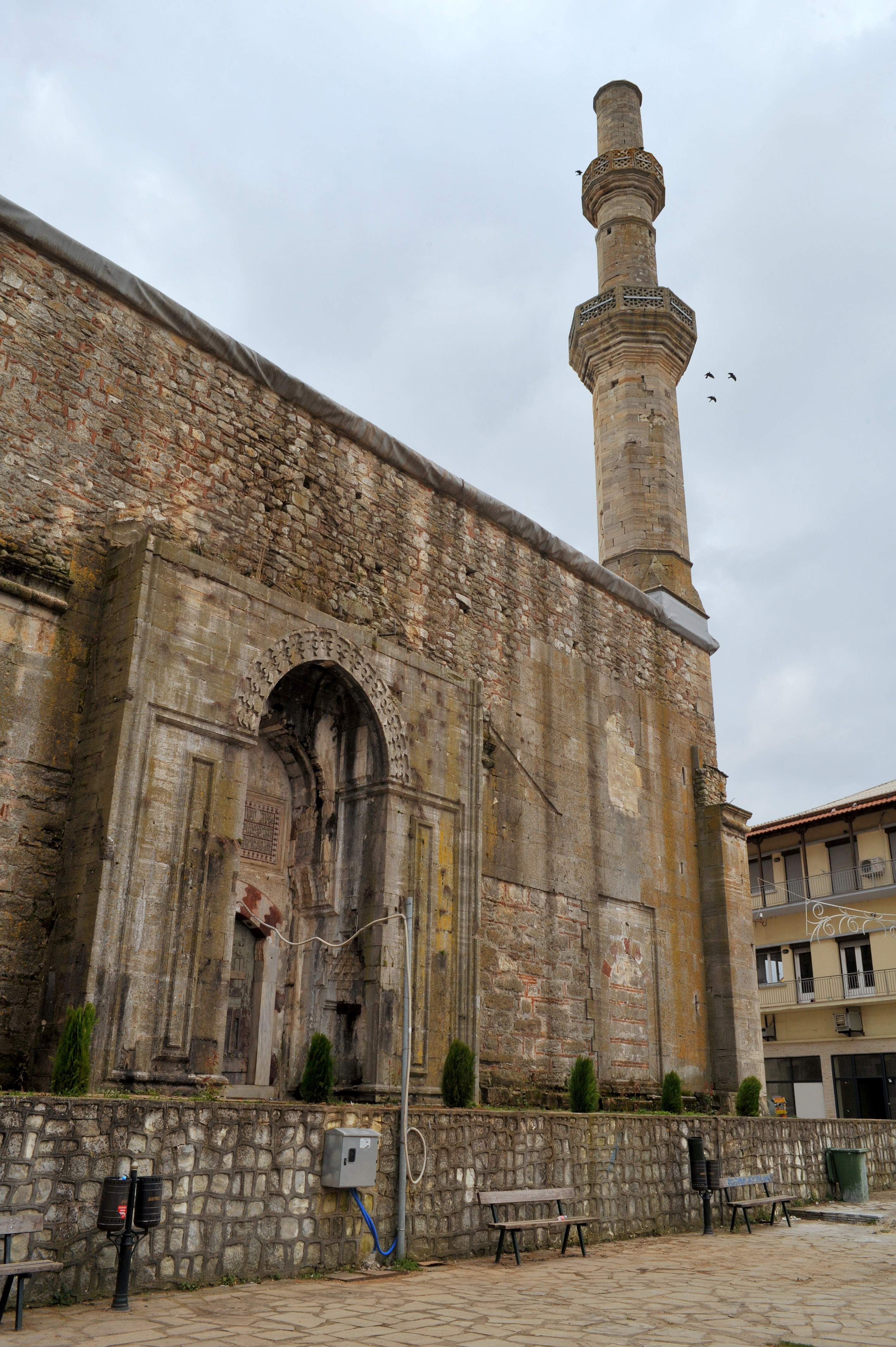 Bayezid (Mehmed I) Mosque, Didymoteicho, Evros, Greece.